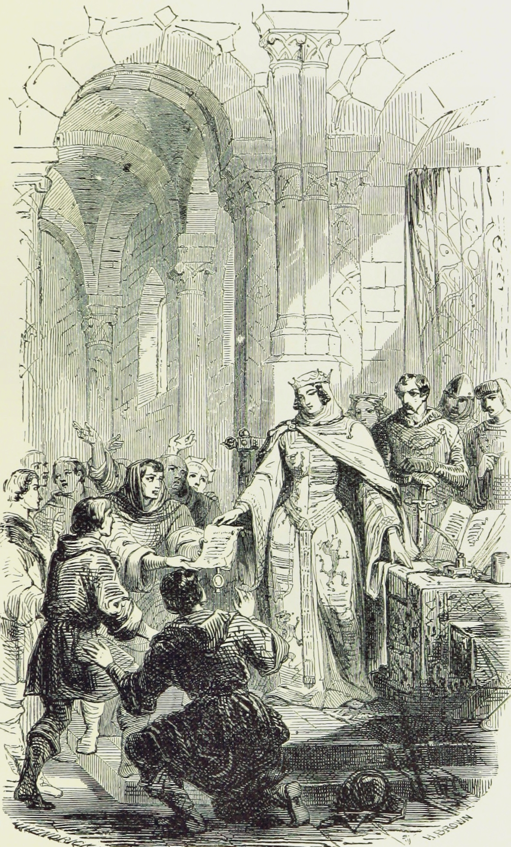 Ermesinde, Countess of Luxembourg, granting charters of freedom to the city of Echternach